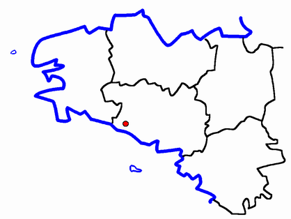 Description: Map for localisazion of cantons of Bretagne region in France Source: made by Hervé Tigier in april 2005 from another large map (published in 1990)